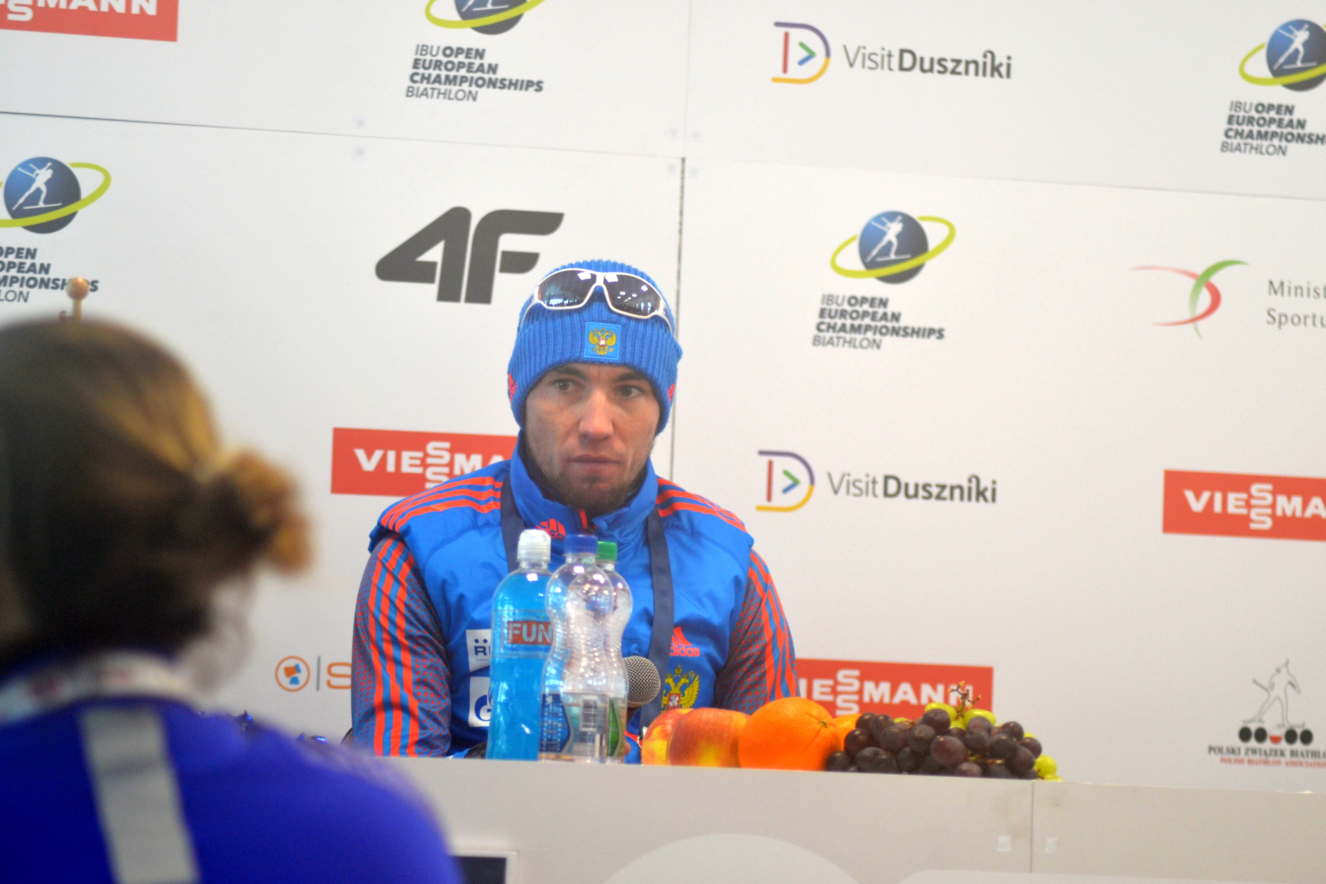 Open European Championships Biathlon 2017, Individual Men's race, held on January 25th.